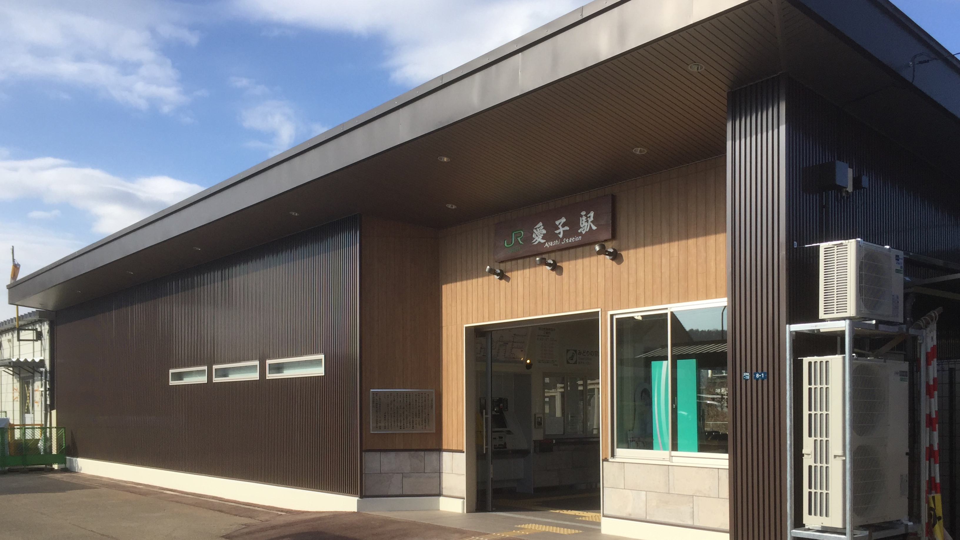 The new station building at Ayashi Station in Miyagi Prefecture, Japan